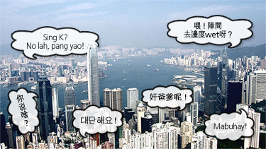 Supporting graphic for Languages in Hong Kong, top right going anti-clockwise: Hong Kong Cantonese, Hong Kong English, Mandarin Chinese, Korean, transliterated Japanese, Tagalog